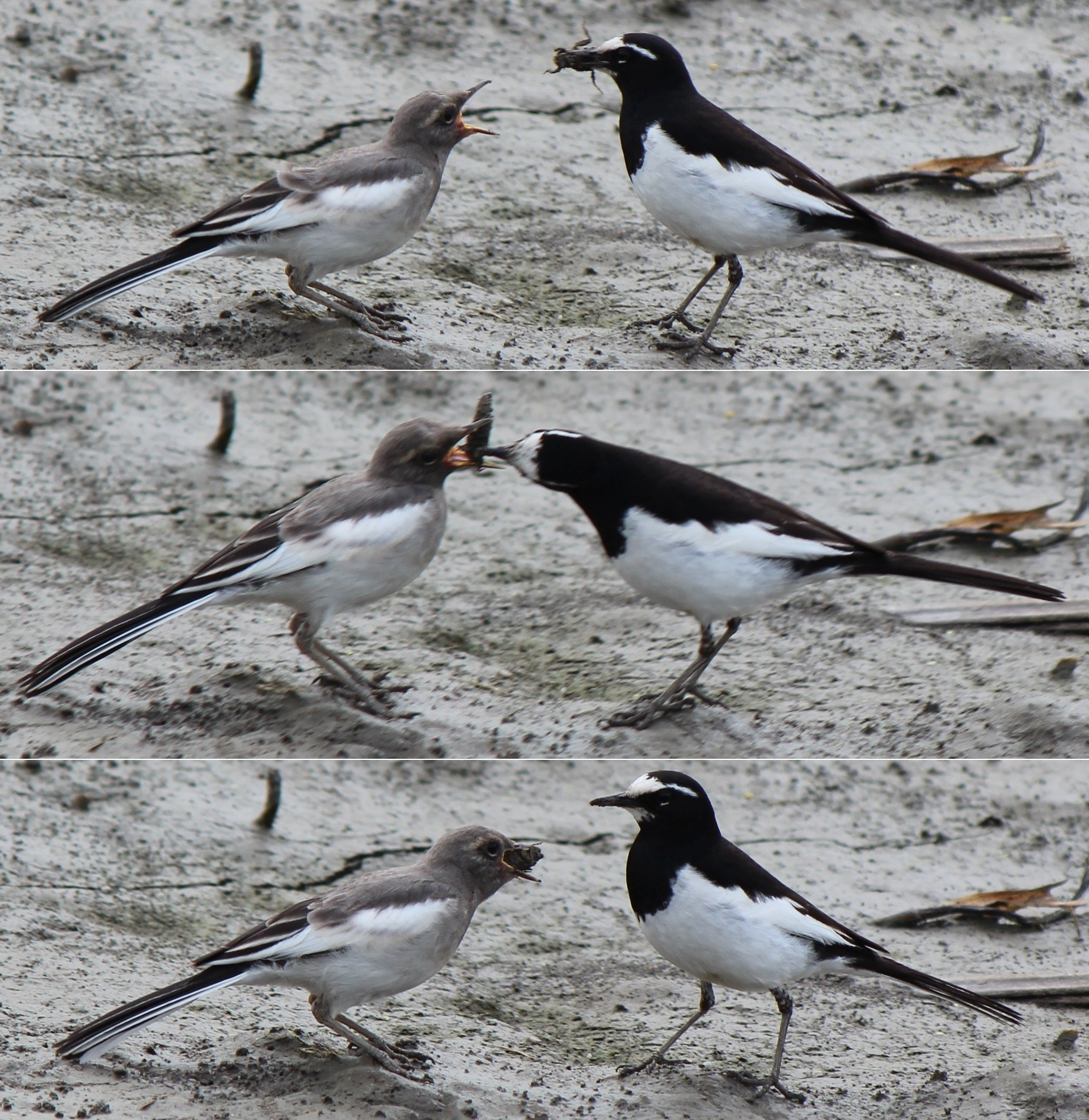 Motacilla grandis (Japanese Wagtail), giving food, in Japan.